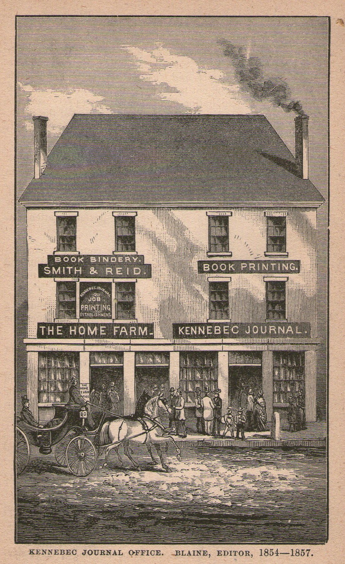 Offices of the Kennebec Journal in Augusta, Maine, represented as it was thought to look like when James G. Blaine was editor.